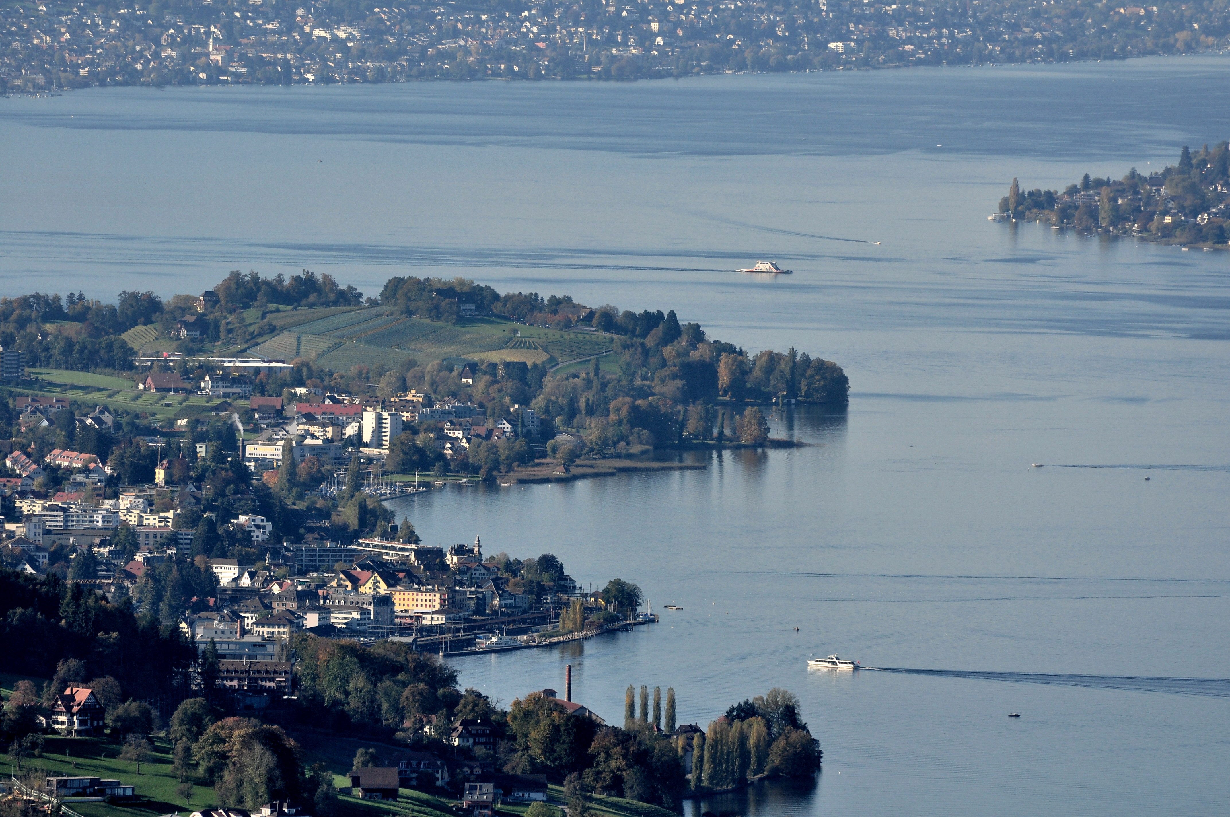 Au peninsula and Wädenswil, as seen from Feusisberg towards Etzel mountain in Switzerland.